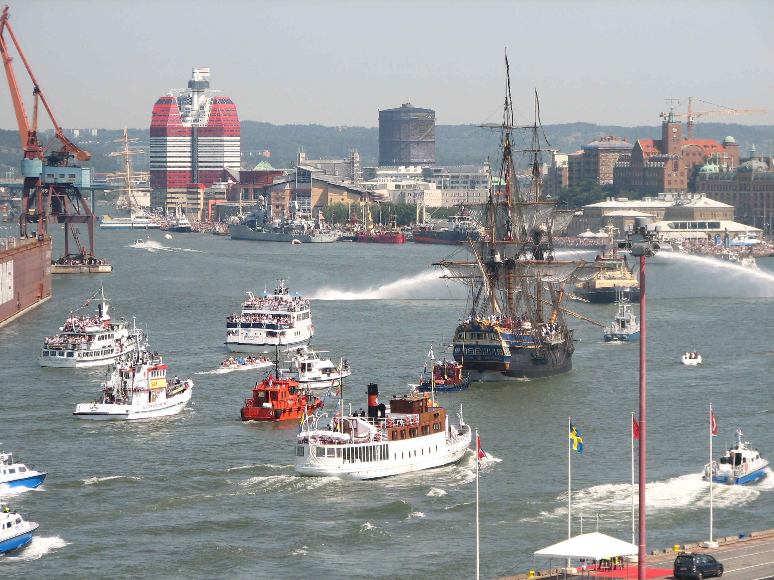 East Indiaman Götheborg gliding through the inner harbour of Göteborg at its return from China. Also seen: the Lipstick office building, the Göteborgsoperan opera house just behind the old destroyer Jagaren Småland, and the old gasometer.